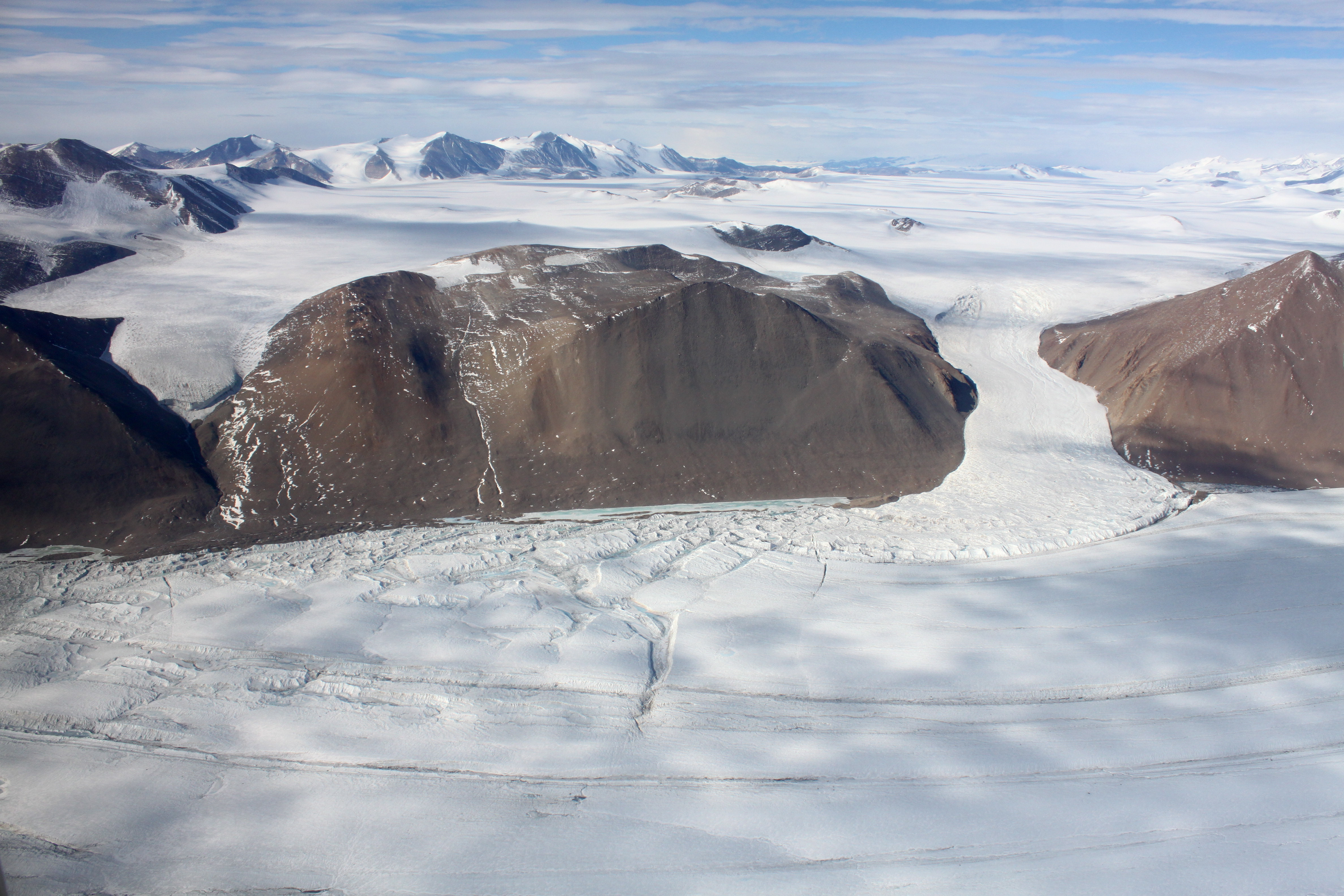 Helicoptering the Dry Valleys